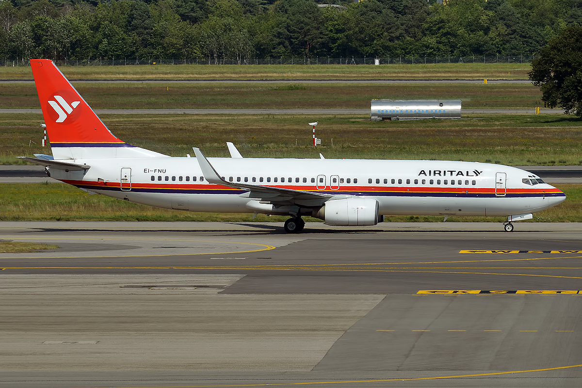 Air Italy, EI-FNU, Boeing 737-86N